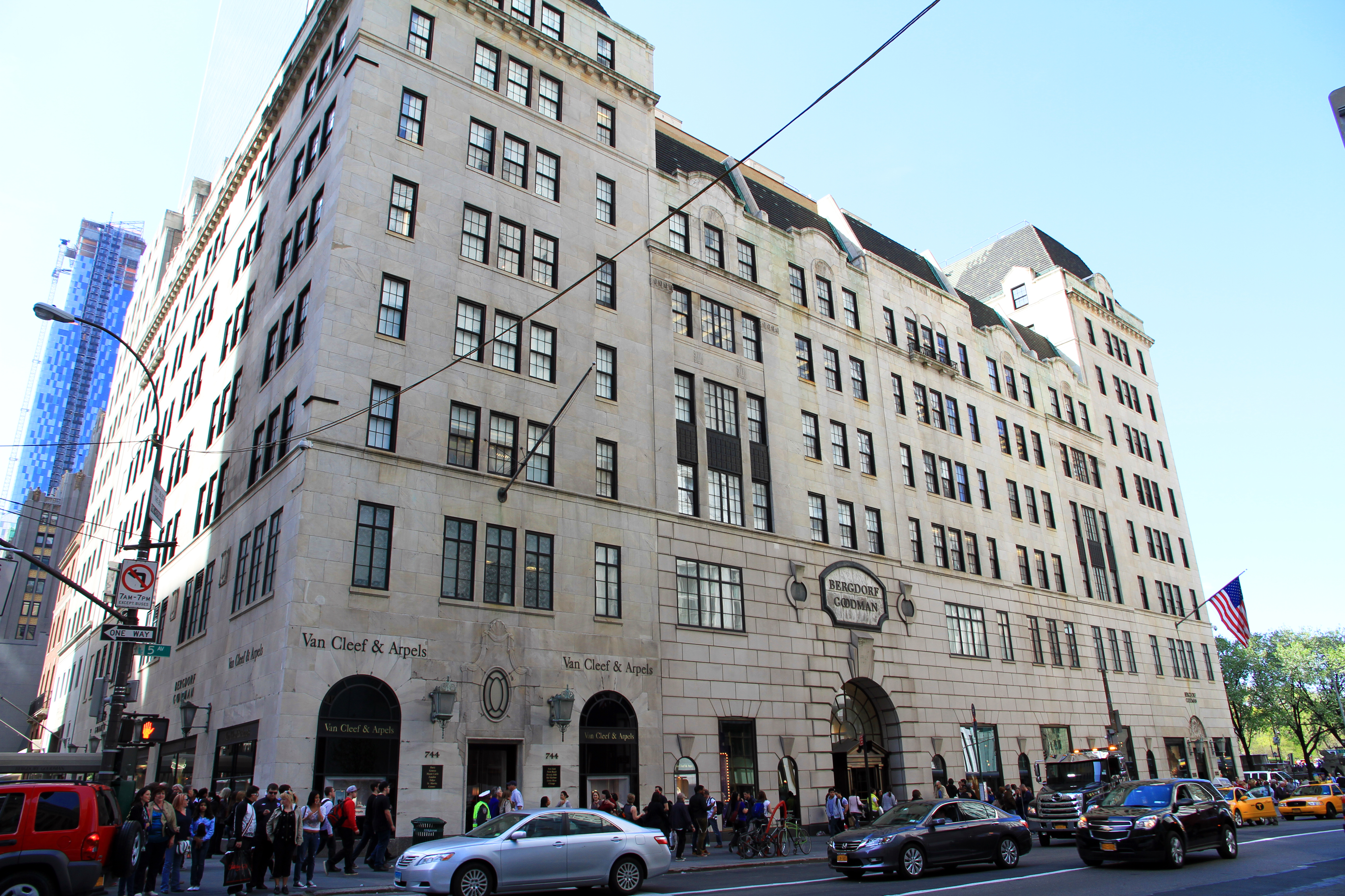 Bergdorf Goodman